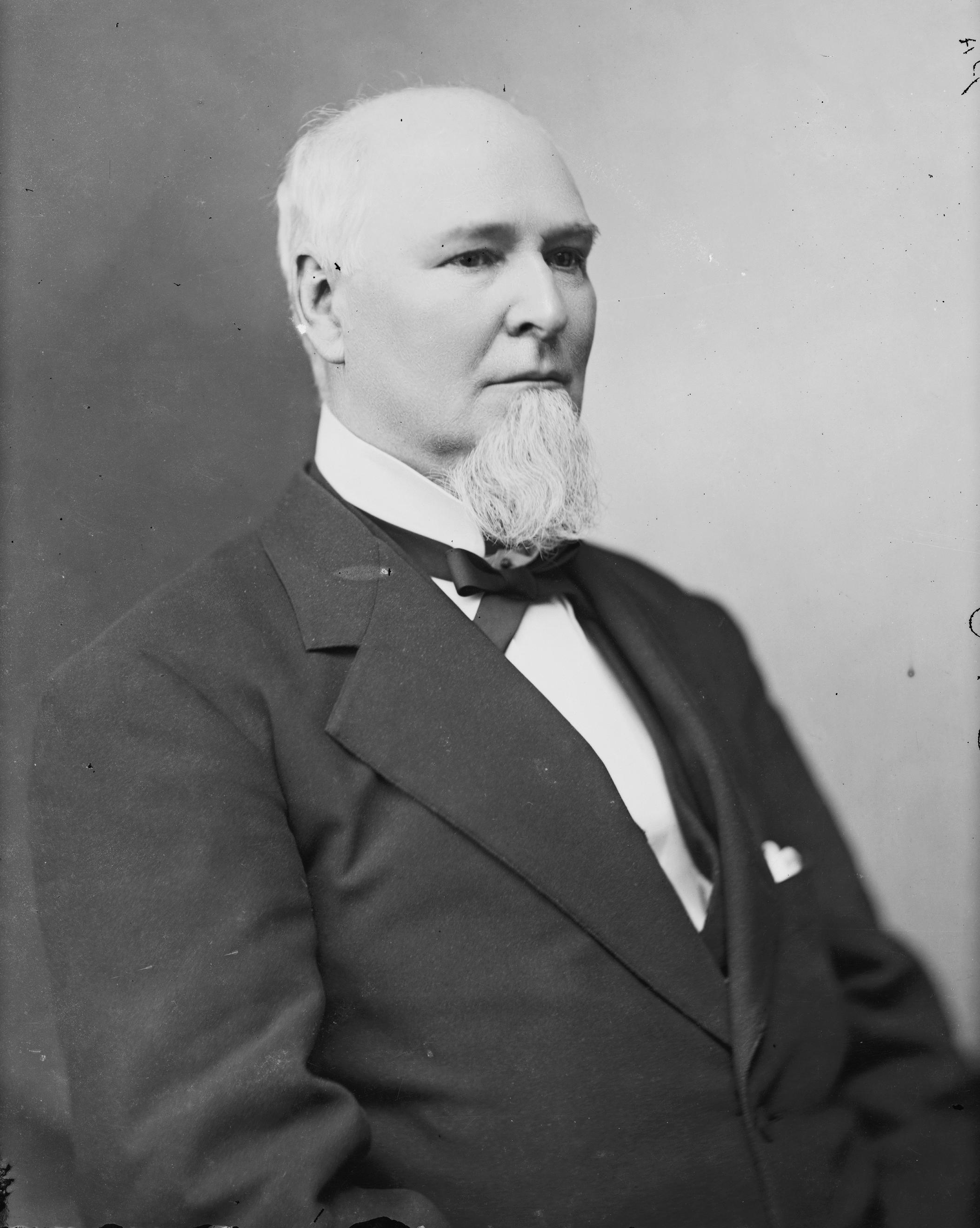 Glenni William Scofield. Library of Congress description: "Scofield, Hon. Glenni W. of Pa."